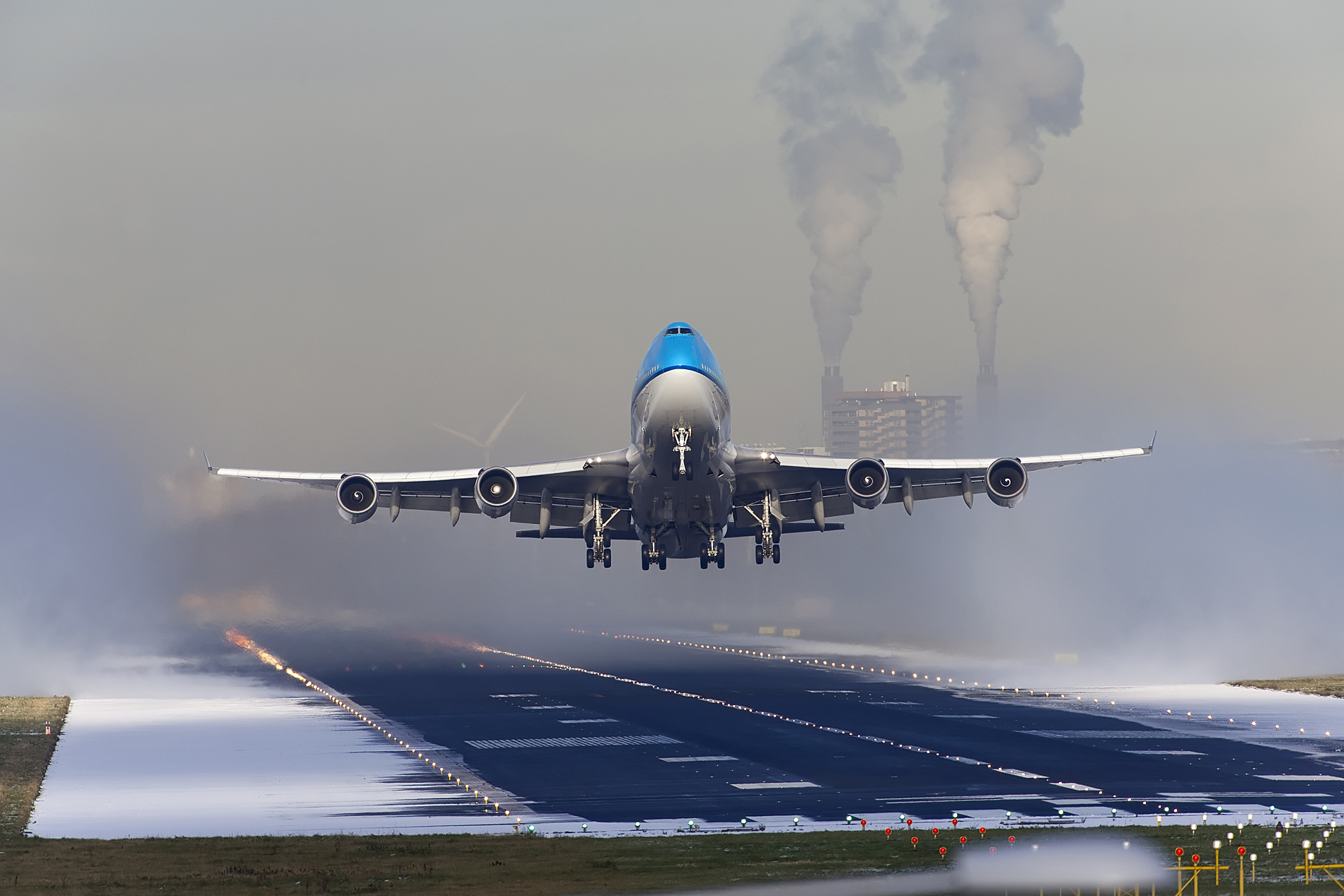 Schiphol